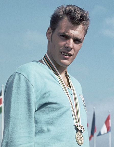 Pauli Nevala at the Tokyo Olympics